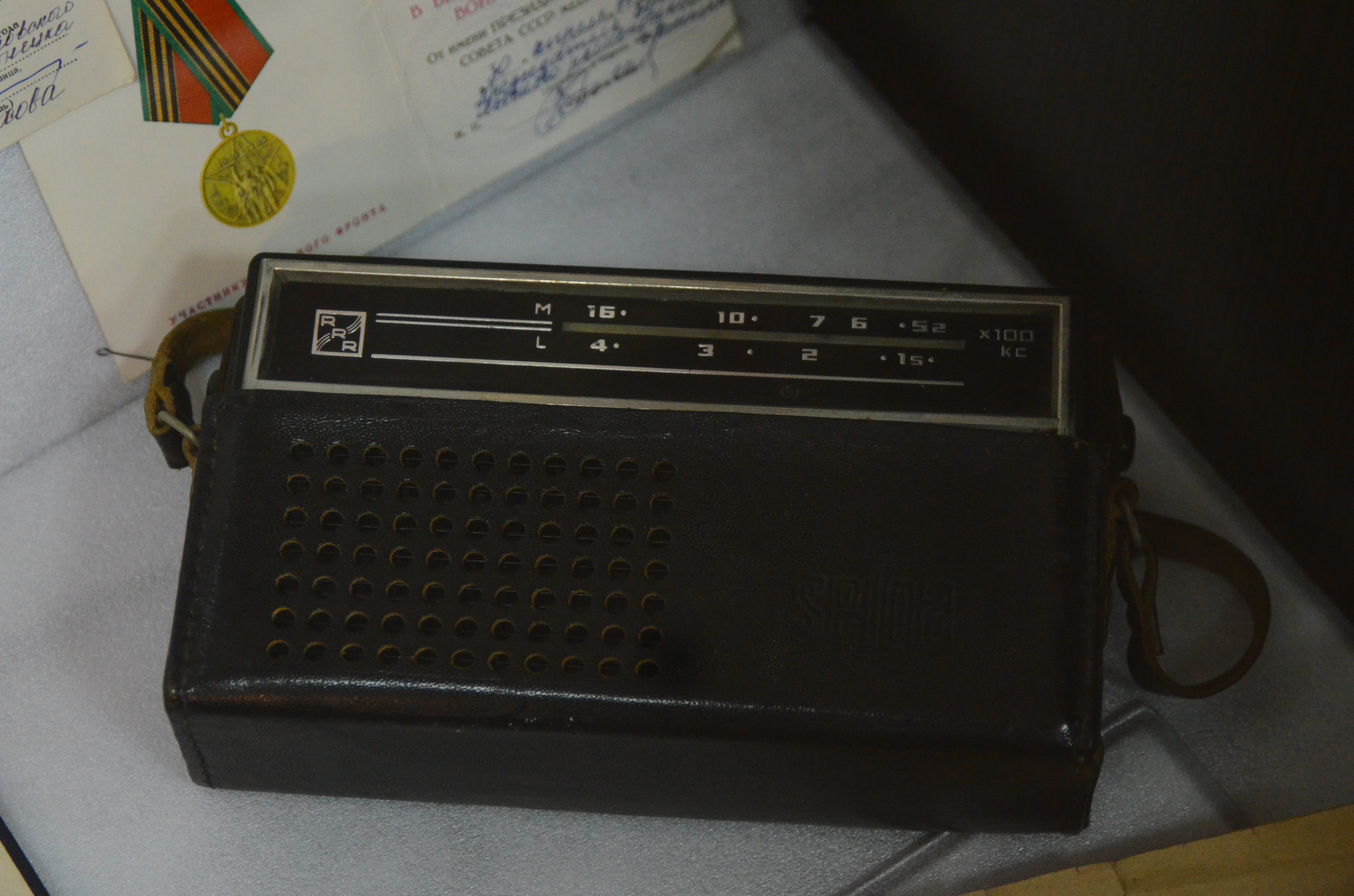 Selga 402 AM receiver, RRR production